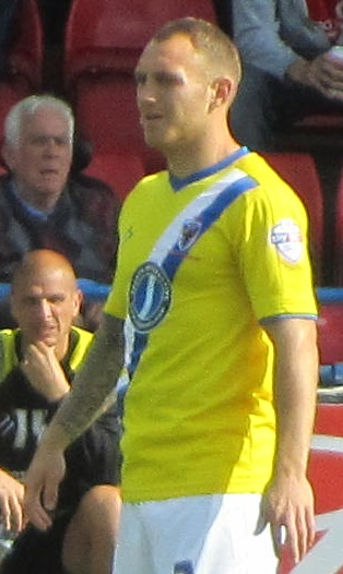 Barry Fuller.